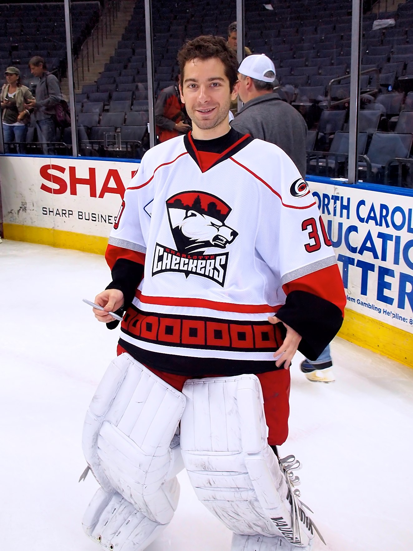 Bobby Goepfert at Charlotte Checkers jersey.